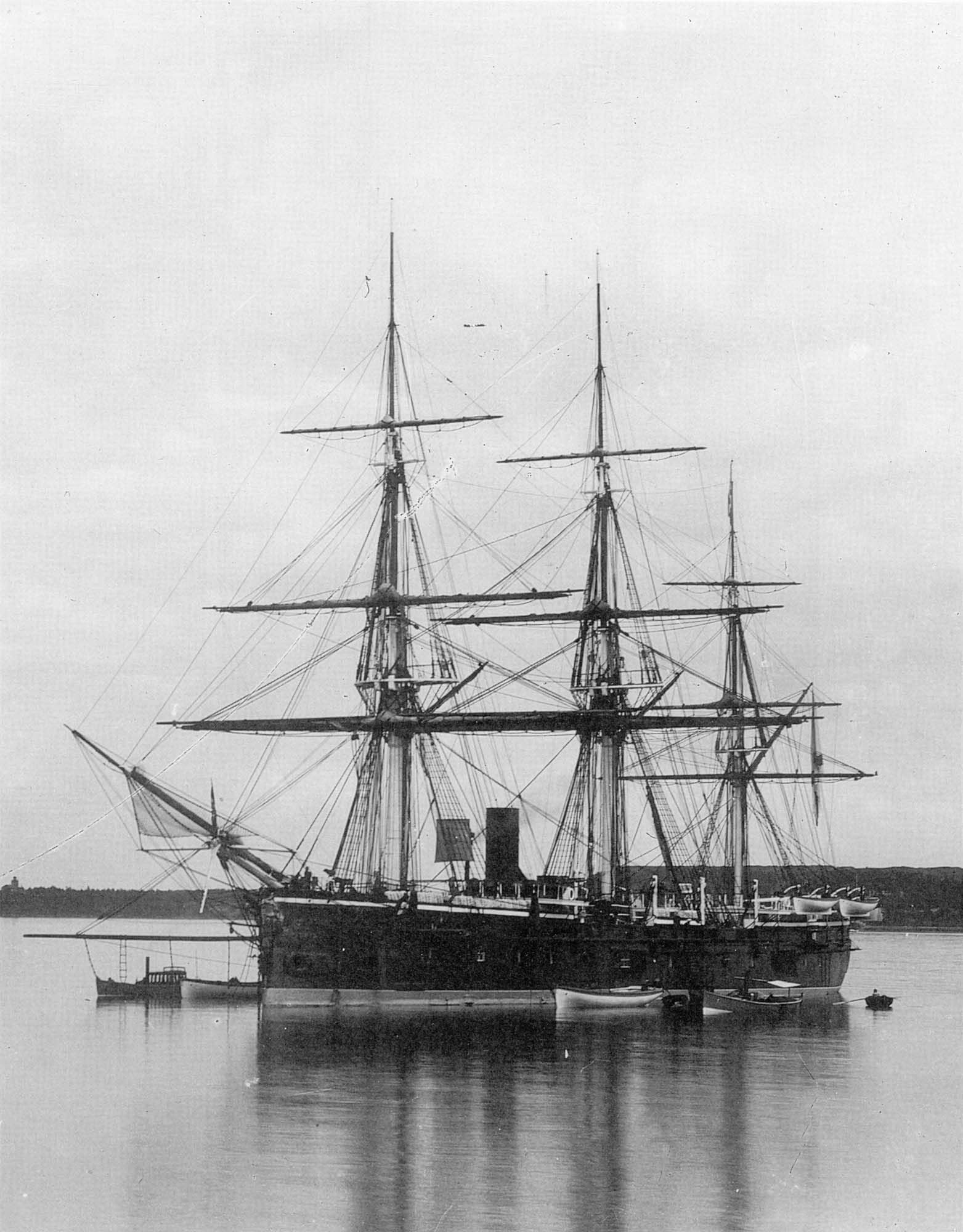 Imperial Russian armoured cruiser Kniaz' Pozharskii at Reval.